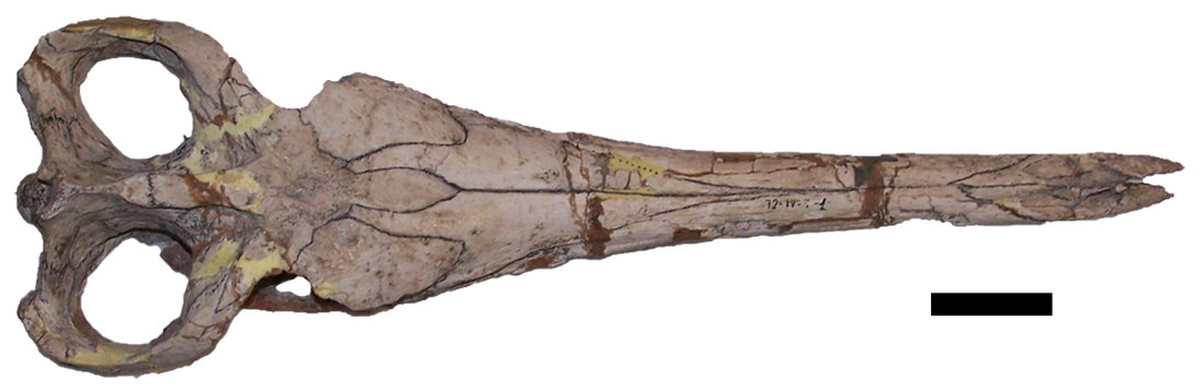 Cricosaurus araucanensis, holotype MLP 72-IV-7-1.